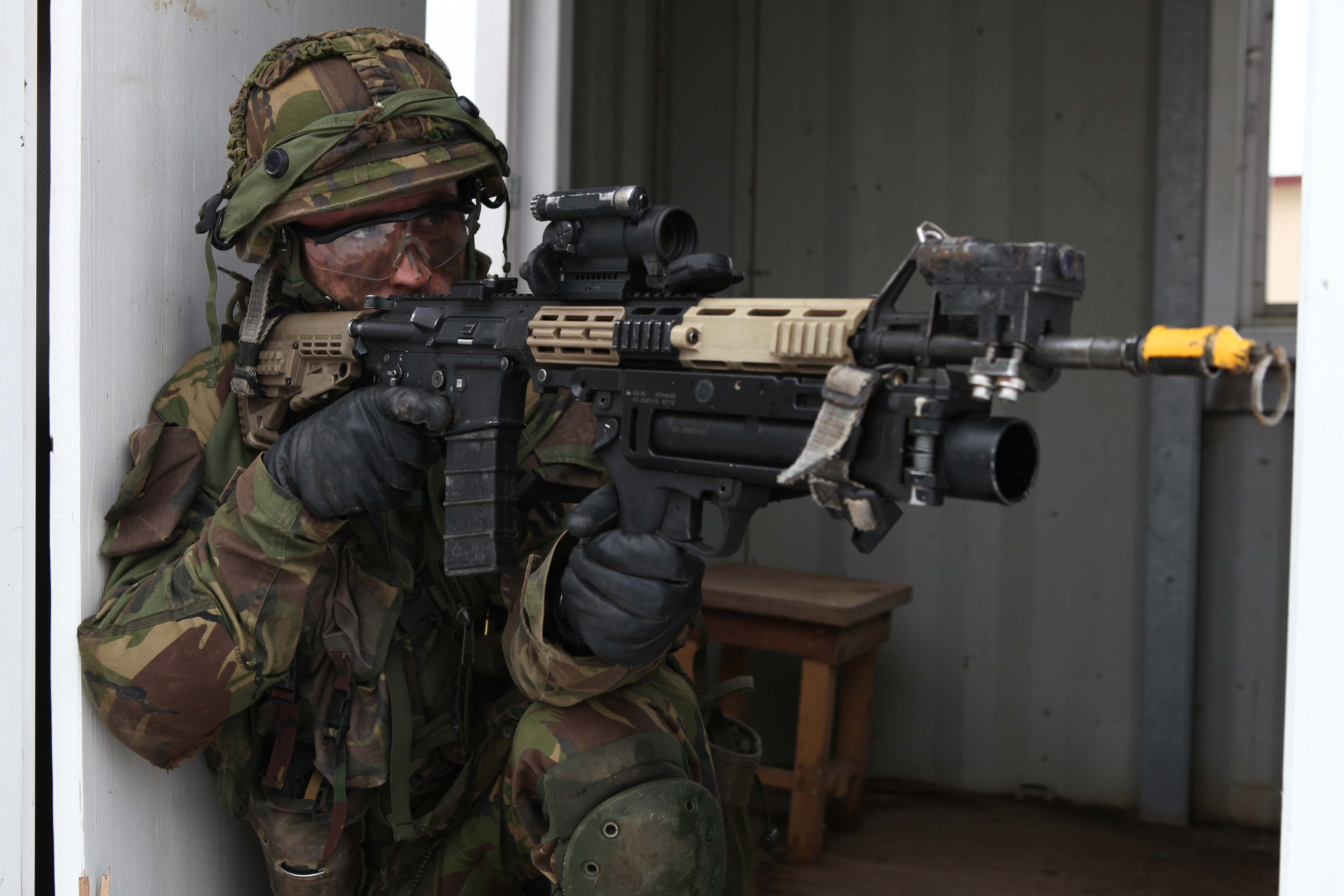 A Dutch soldier of Alpha Company, 42nd Infantry Battalion, 13th Mechanized Brigade provides security while conducting an attack during exercise Allied Spirit I at the Joint Multinational Readiness Center in Hohenfels, Germany, Jan. 20, 2015. Exercise Allied Spirit includes more than 2,000 participants from Canada, Hungary, Netherlands, United Kingdom, and the U.S. Allied Spirit is exercising tactical interoperability and testing secure communications within Alliance members. (U.S. Army photo by Pfc. Lloyd Villanueva/Released)